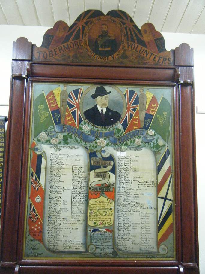 The Roll of Honour dedicated to Tobermores WWI volunteers